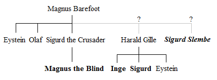 Simple family tree portraying the family relations in the Battle of Holmengrå. Individuals who were involved in the battle are bolded.